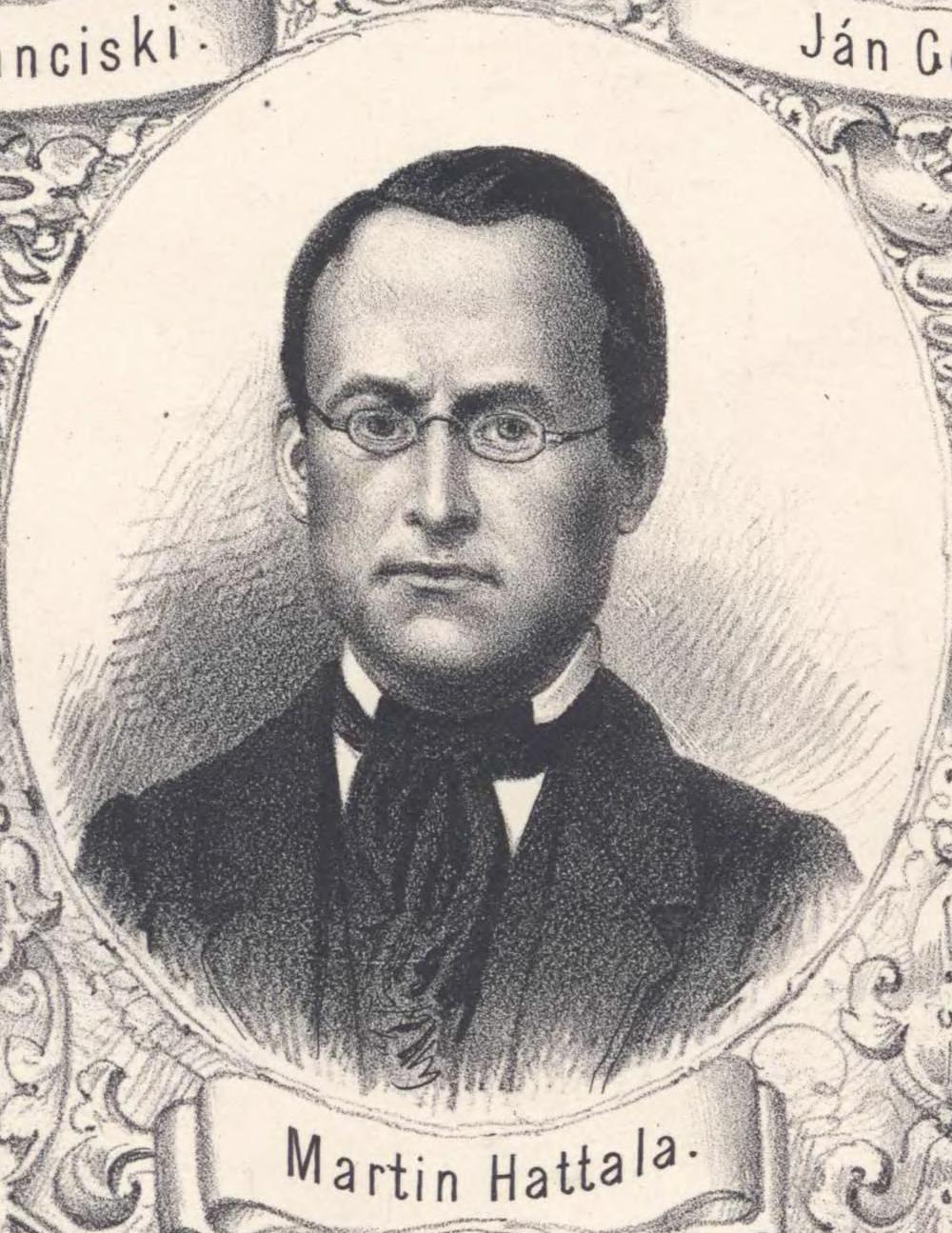 Portrait of Martin Hattala (1821 - 1903), Slovak linguist. Picture cropped from a gallery of famous Slovaks.